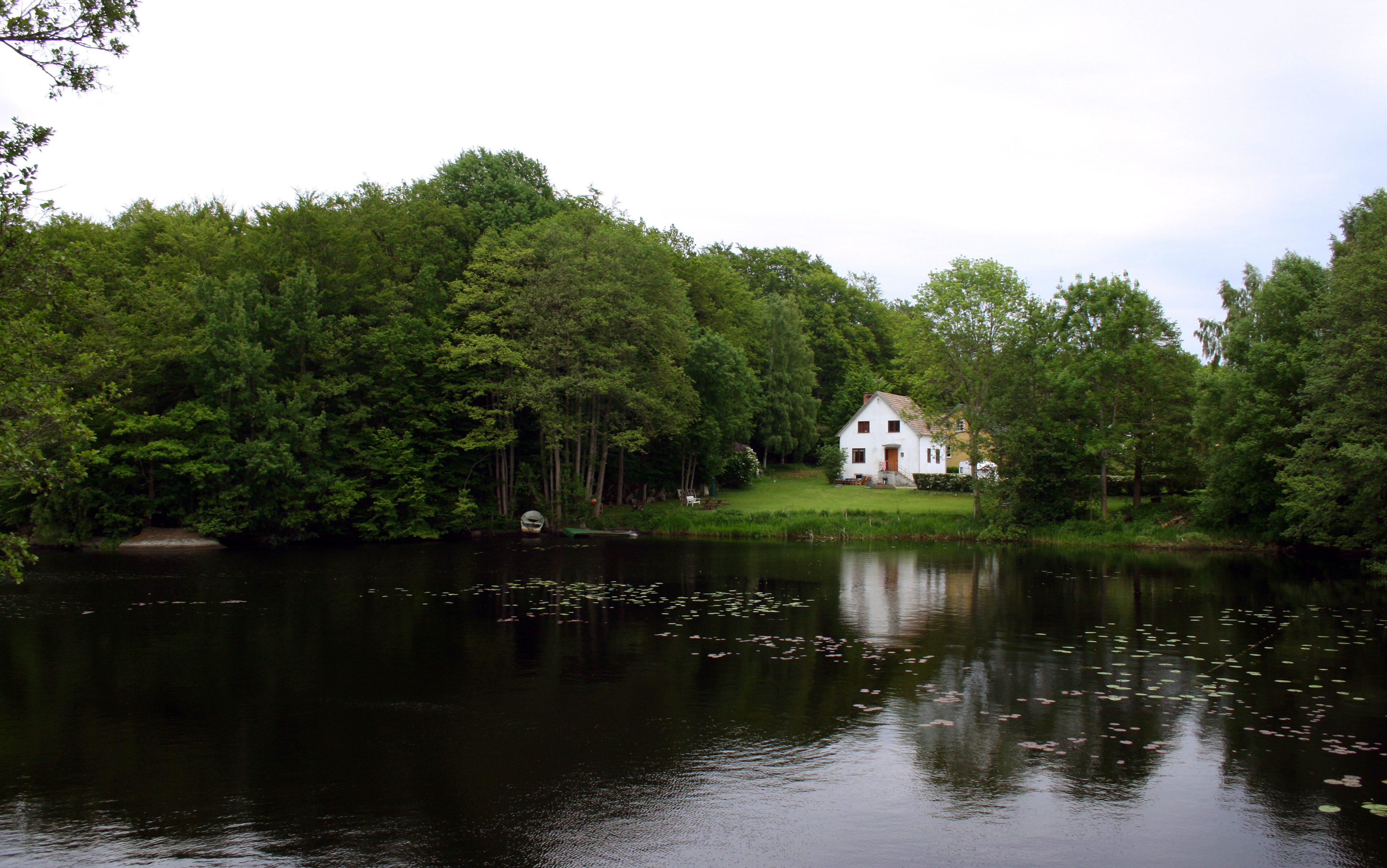 Mieån at Granefors, Blekinge, Sweden